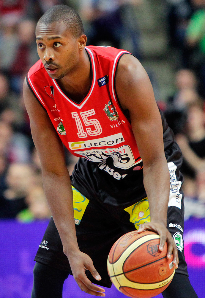 Basketball player Zabian Dowdel